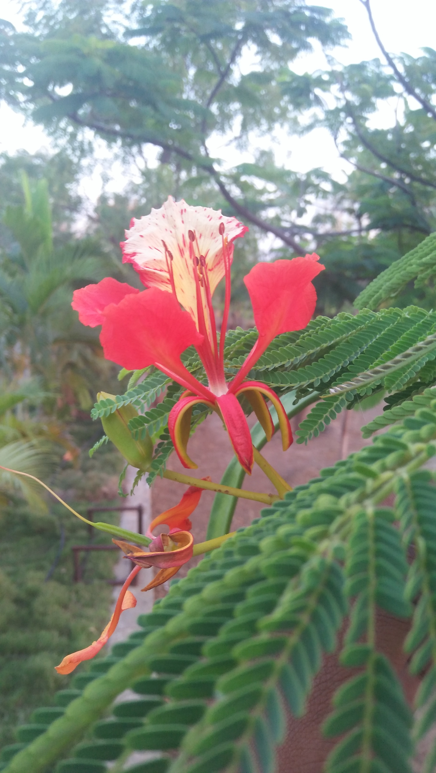 solapur university